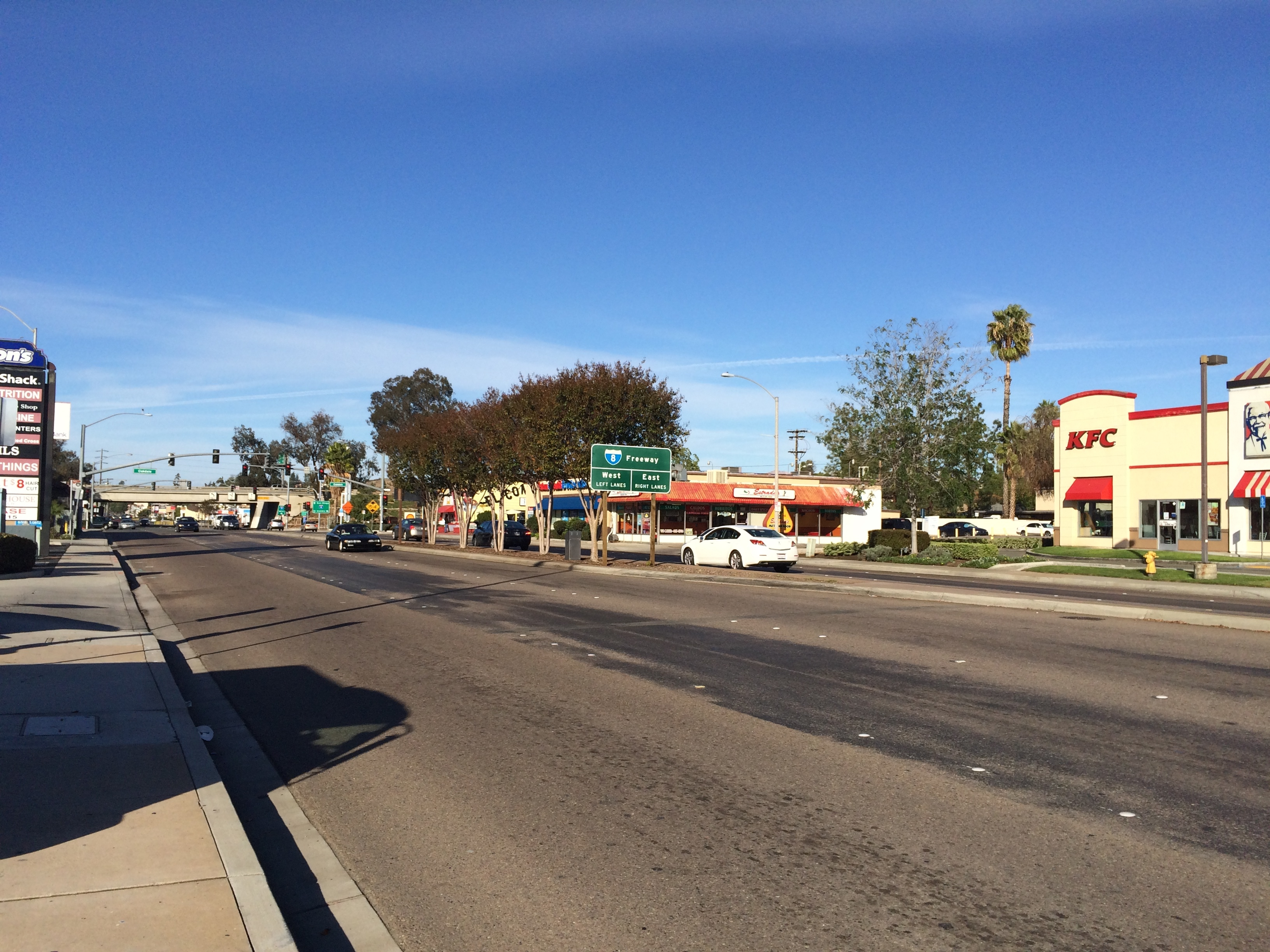 State Route 54 at the historical eastern terminus at I-8.